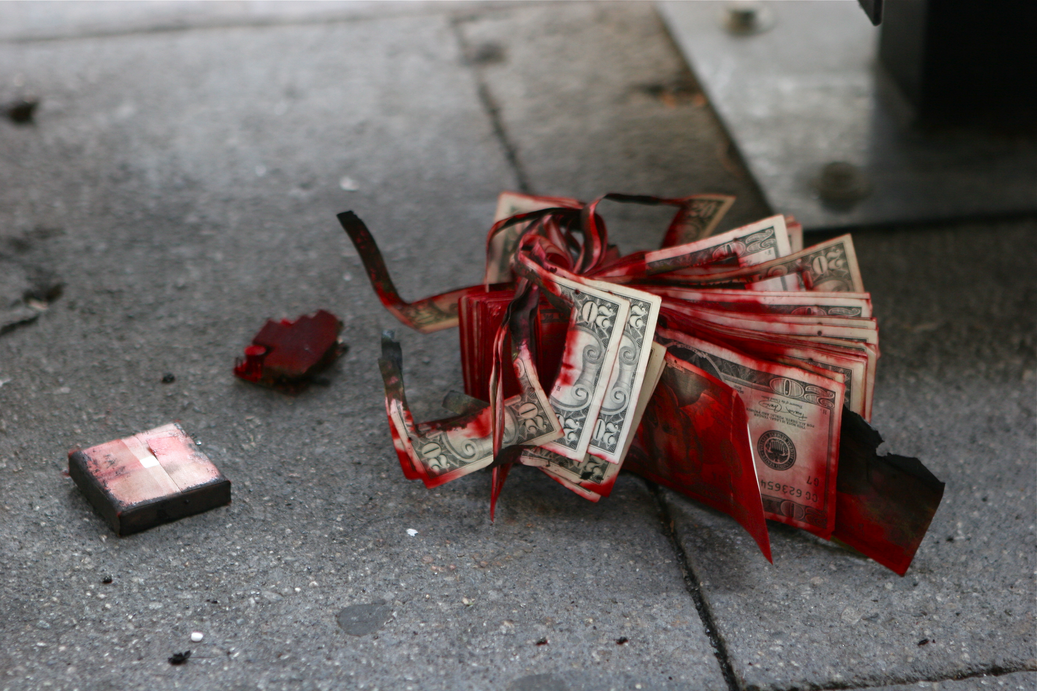 Aftermath of a Bank of America robbery. The dye pack exploded and the stack of 20s were abandoned on the sidewalk. Bank of America 888 W 7th St Los Angeles, CA 90012